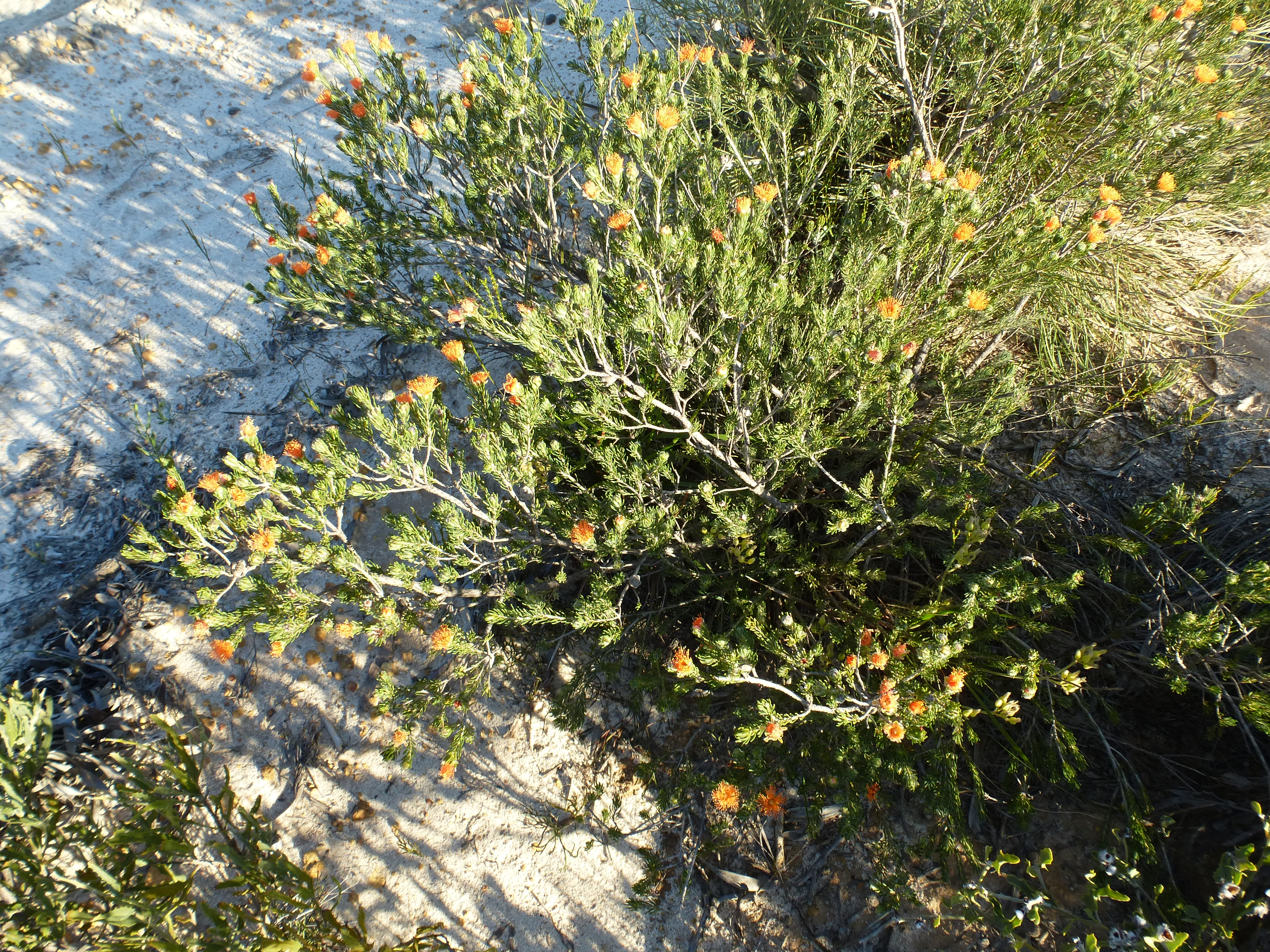 Eremaea ectadioclada growing 4 km south of Eneabba